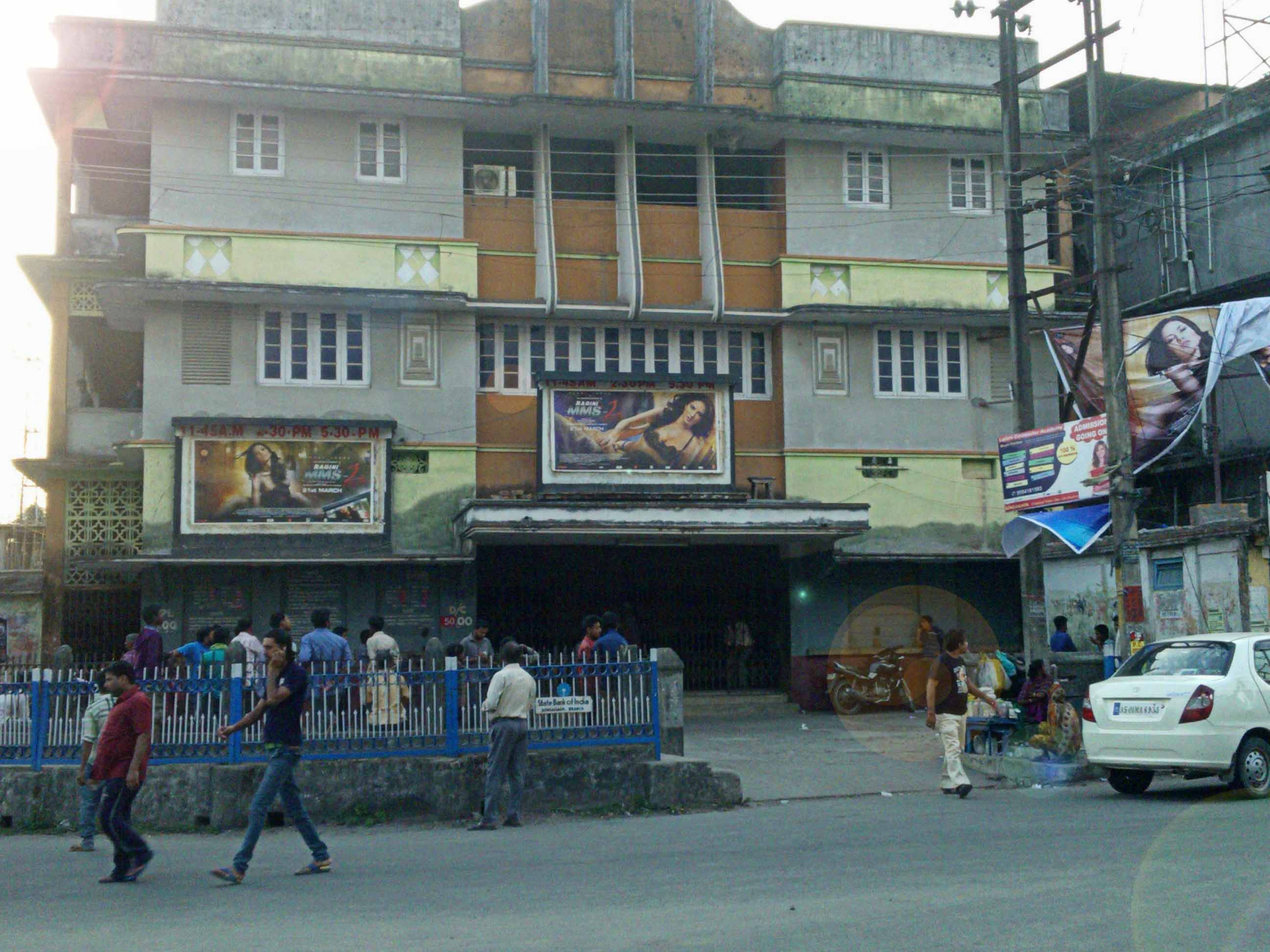 a cinema hall